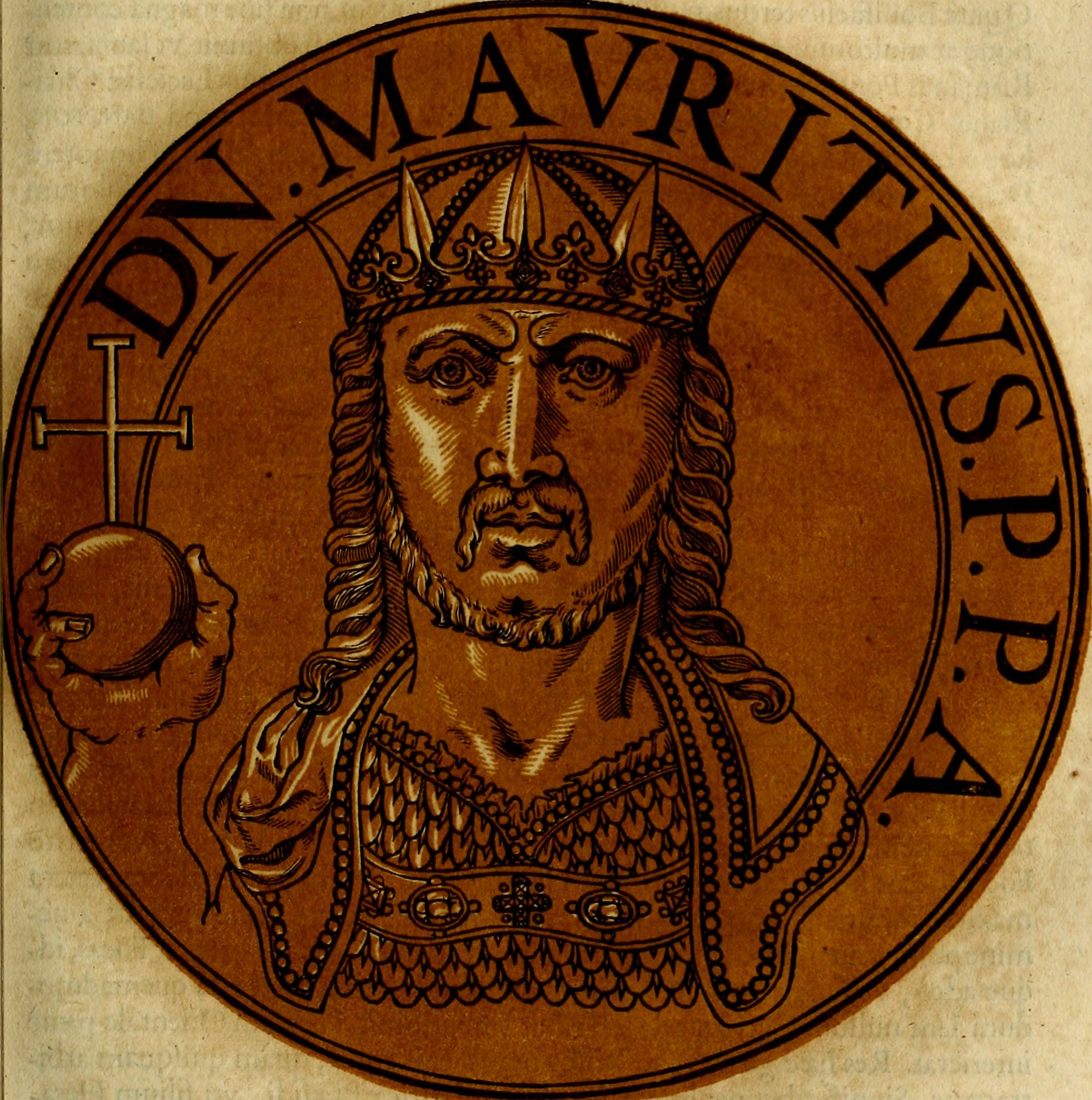 Title: Icones imperatorvm romanorvm, ex priscis numismatibus ad viuum delineatae, & breui narratione historicâ Year: 1645 (1640s) Authors: Goltzius, Hubert, 1526-1583 Gevaerts, Jean-Gaspard, 1593-1666 Rubens, Peter Paul, 1577-1640 Subjects: Emperors Emperors Numismatics, Roman Publisher: Antverpiae, Ex officina plantiniana Balthasaris Moreti Text Appearing Before Image: rn re-fpondebat Philippicus, ipfum Procuratorem ab exercitu, & qui commeatui prcefTet, ele-dum fuifle, hominem effe meticulofum & minime metuendum. Turn fubijeiebat Mau-ritius : Si eft timidm, eft homicida. ac fbmnium Philippico enarrabat. Poftera nodecome-ta vifus eft afpedu horrendus. Hinc in exercitu feditio confeftim fubfecuta eft, in qua mi-lites Focam legerunt Exarchum 3clypeifque impofitum fubleuarunt, vociferantes in huncmodum: Horribile Imperatori non parere, horribilius eidem parere. Cum iam omniaConftantinopoli perturbari cosperunt, ac Theodofius Mauritij filius cum aliquot cogna-tis e caftris ad Mauritium confugiebat, mutata hie vefte cum vxore ac liberis per mareaufugit. Focas ipfum cum exercitu infequebatur, capiebatque Calcedonix, atque omnescapite obtruncabat. Mauritius miferia: huius patiens, Deum vfque inuocabat, (xpiufqucante mortem hanc recitabat fententiam : IuHhs es Domwe, ejr reel urn indicium tuum. I&9 xc v. ivstvs.es domine, et rectvmivdicivm tvvm. Text Appearing After Image: Anno xx i. fui Imperij cum omni familiacapite truncatus eft. Aa 3